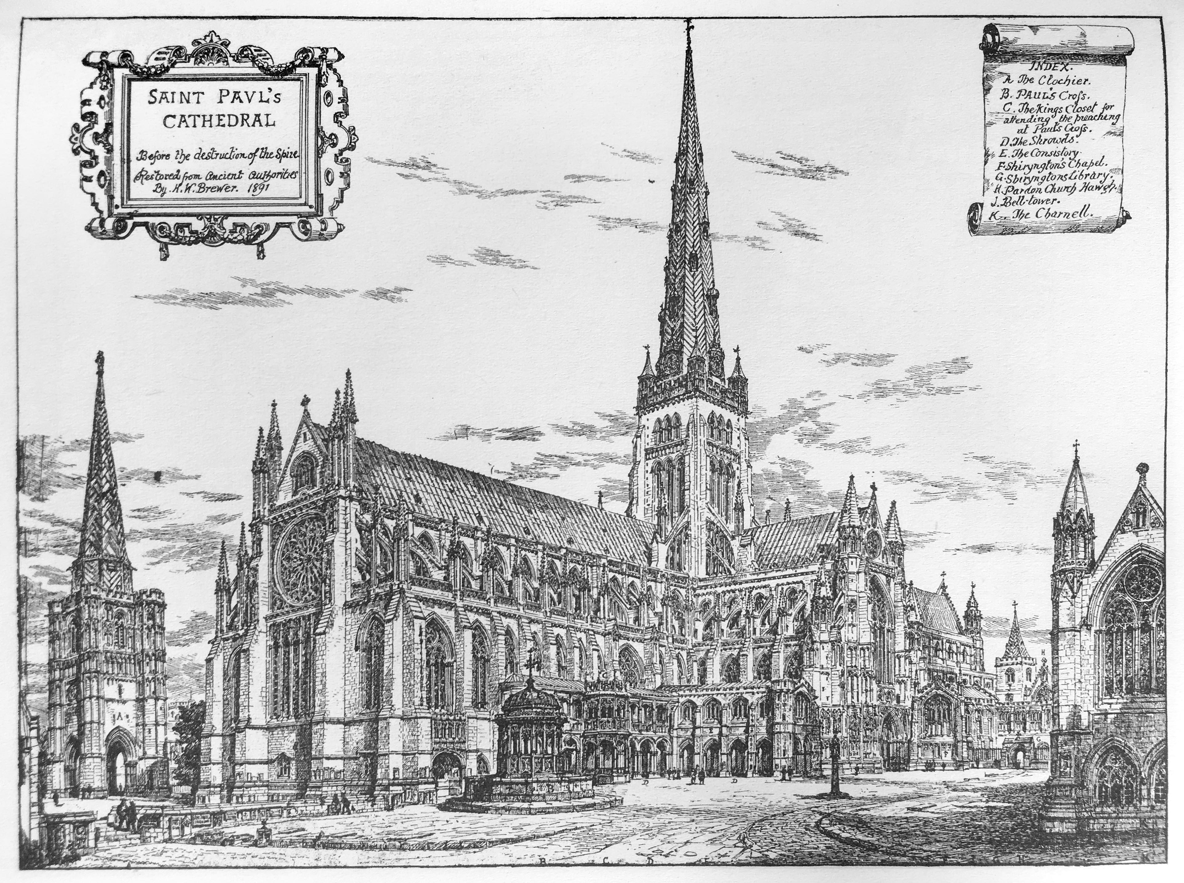 Saint Paul's Cathedral before the Destruction of the Spire. Restored from Ancient Authorities